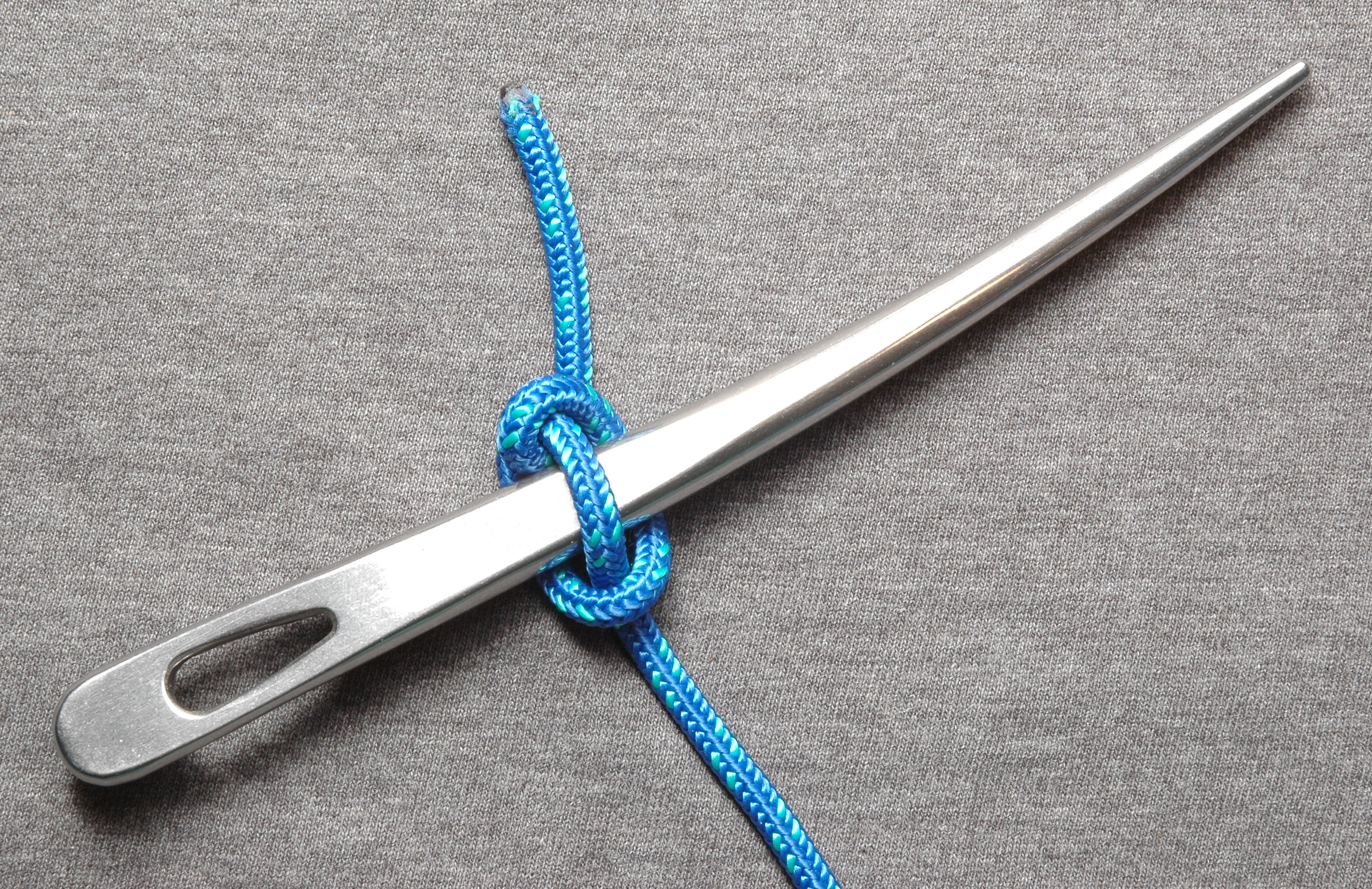 A finished Marlinespike hitch made around a modern Marlinespike with integrated shackle key/lanyard hole.